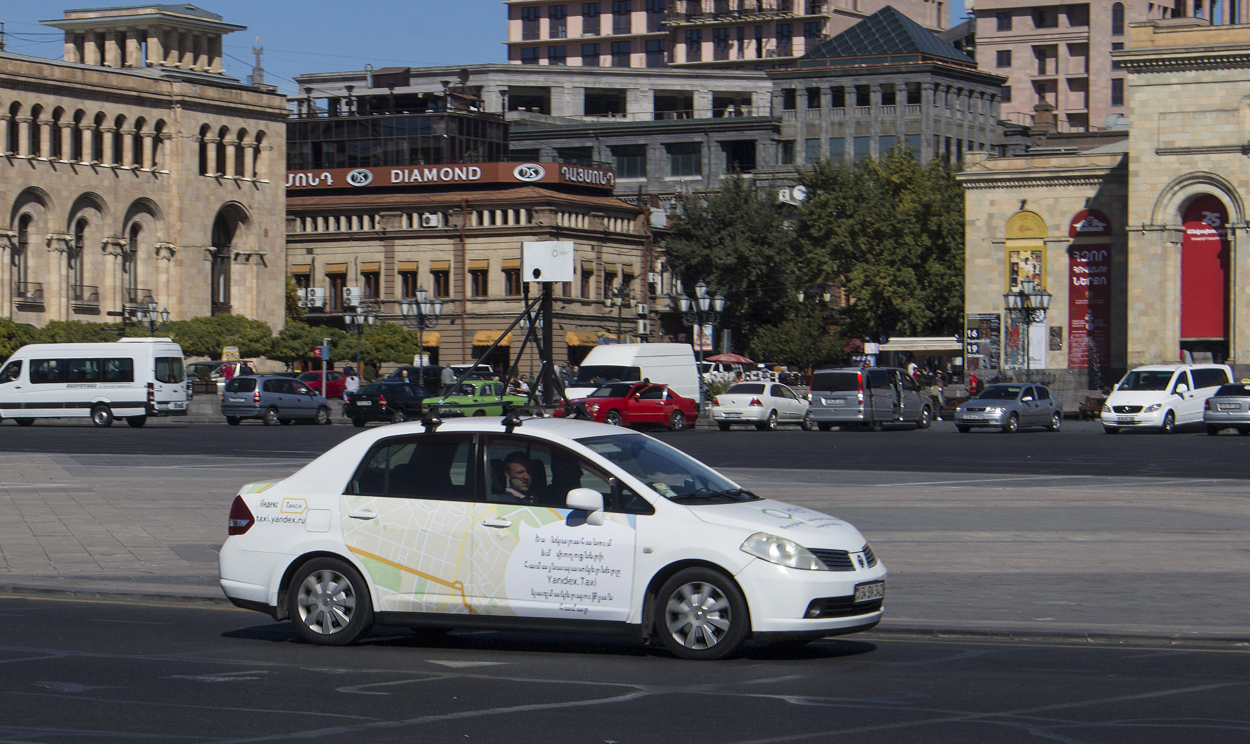 Yandex Panorama shooting car in Yerevan, Republic Square, fall 2016